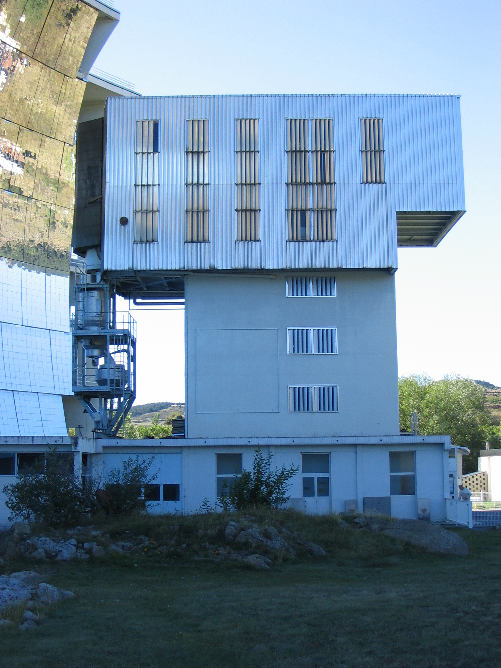 Centre du Four Solaire Félix Trombe, Odeillo, France.